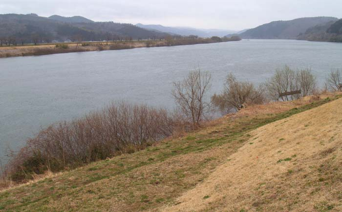 View of the Kitakami River looking south in Tome City, Miyagi Prefecture, Japan.